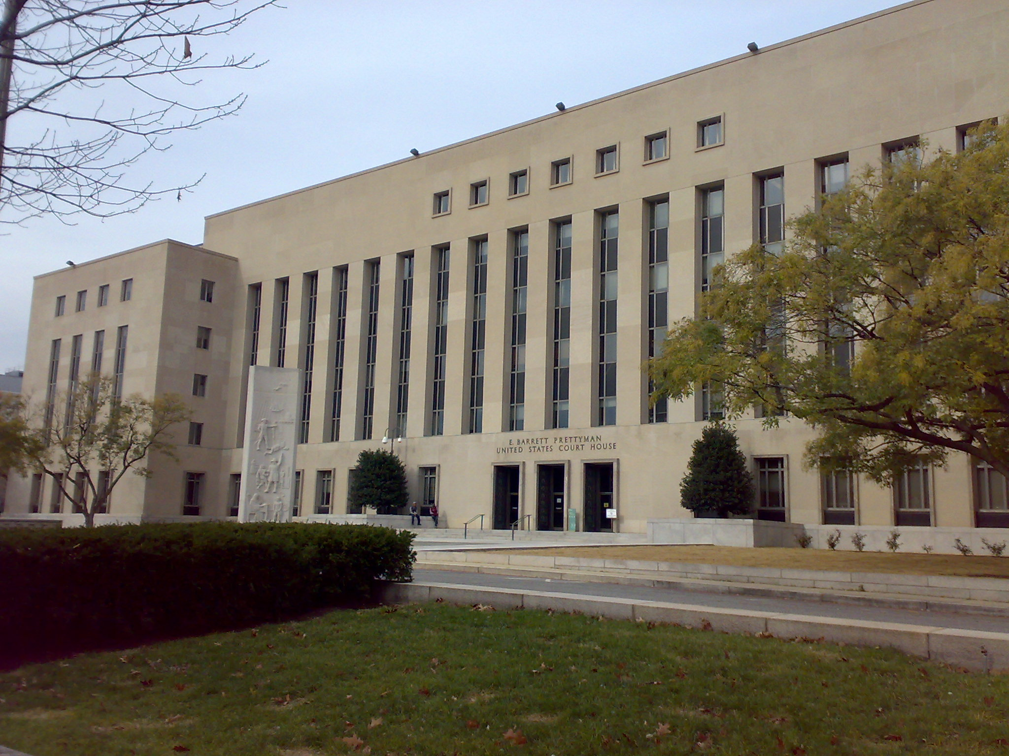 US Courth House, Washington DC